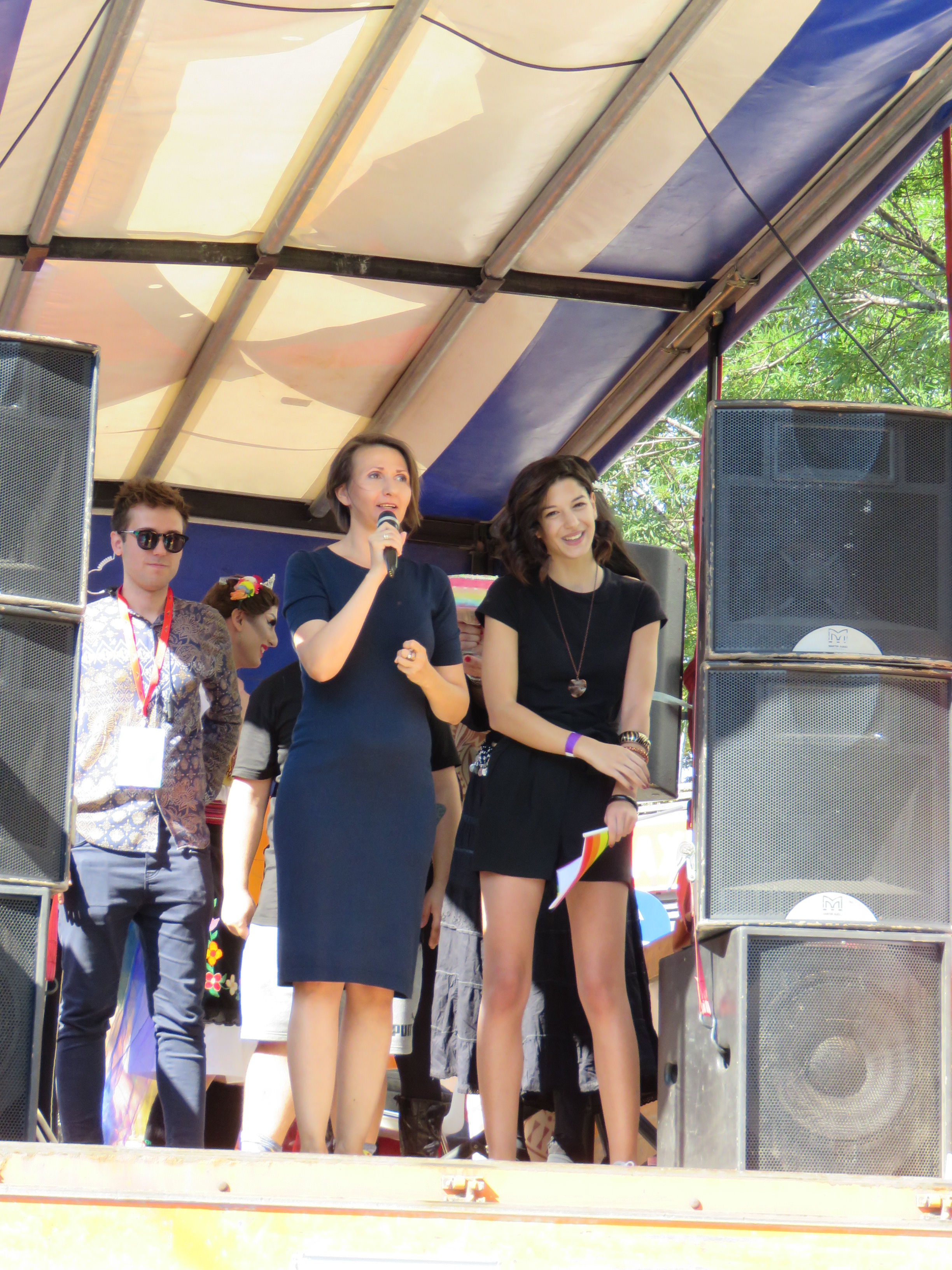 Belgrade Pride parade named "Say YES" took place on September 16th 2018, with over 1000 participants. Suzana Trninić, the Godmother of this year's Pride